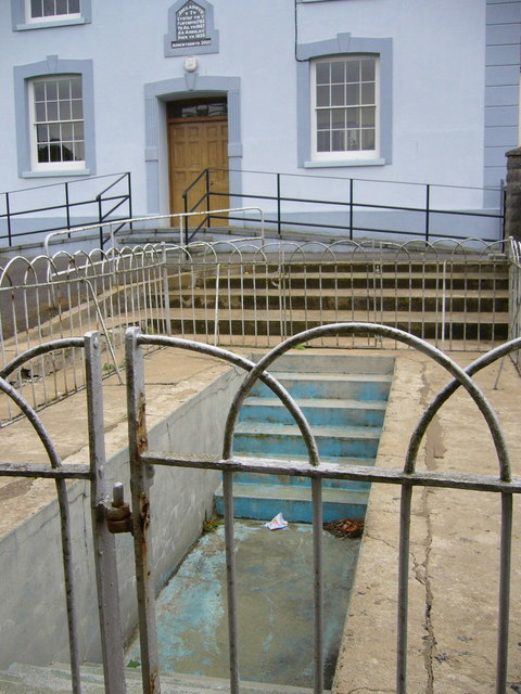 Capel y Bedyddwyr Blaenffos Blaenffos Baptist Chapel with the outdoor baptismal tank in the foreground.